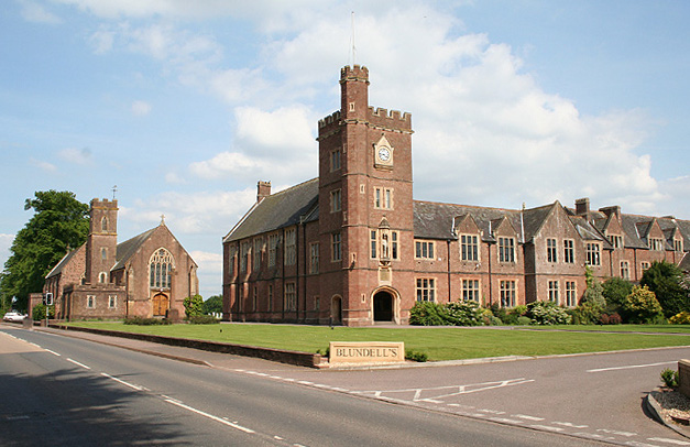 Blundell's School in Tiverton, Devon, England. Looking east-north-east. OSGB36: SS96981290 WGS84: 50:54.3809N 3:27.9942W. This version cropped and modified from the original by user:zzuuzz.